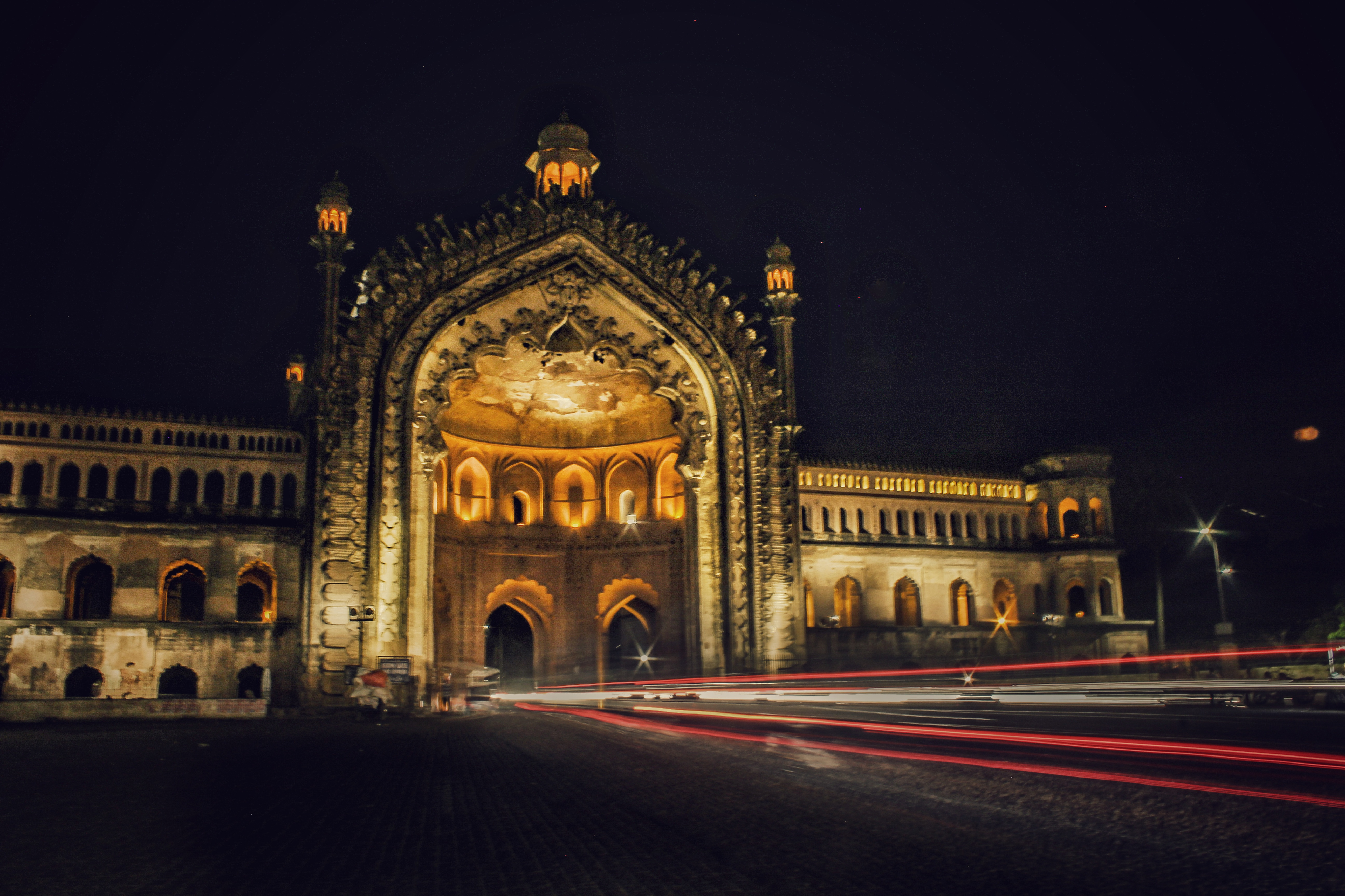 Rumi Darwaza during night. Heavy traffic all the time.